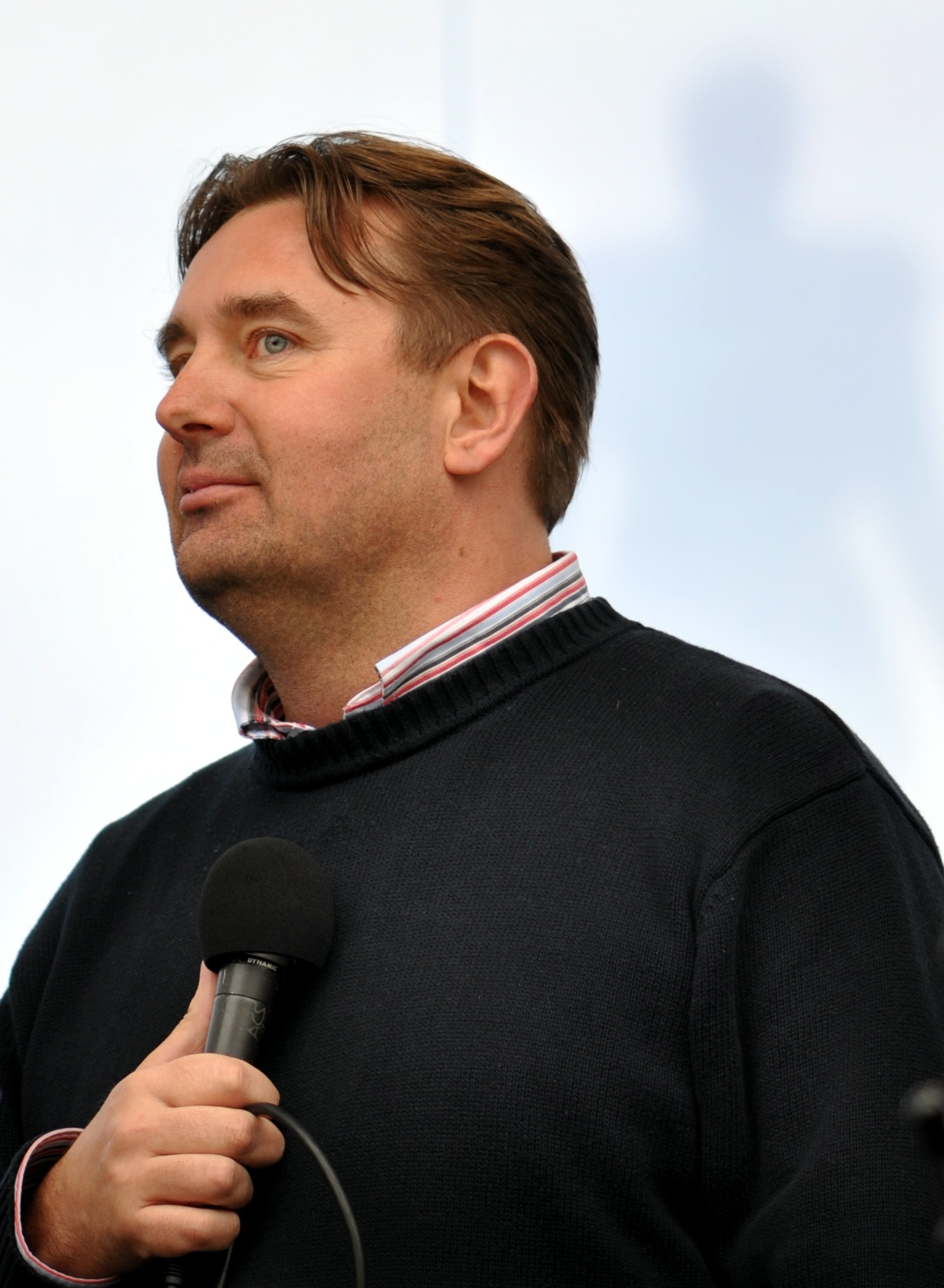 Timo Koivusalo, Finnish film director, Senate Square, Helsinki, June 2009.